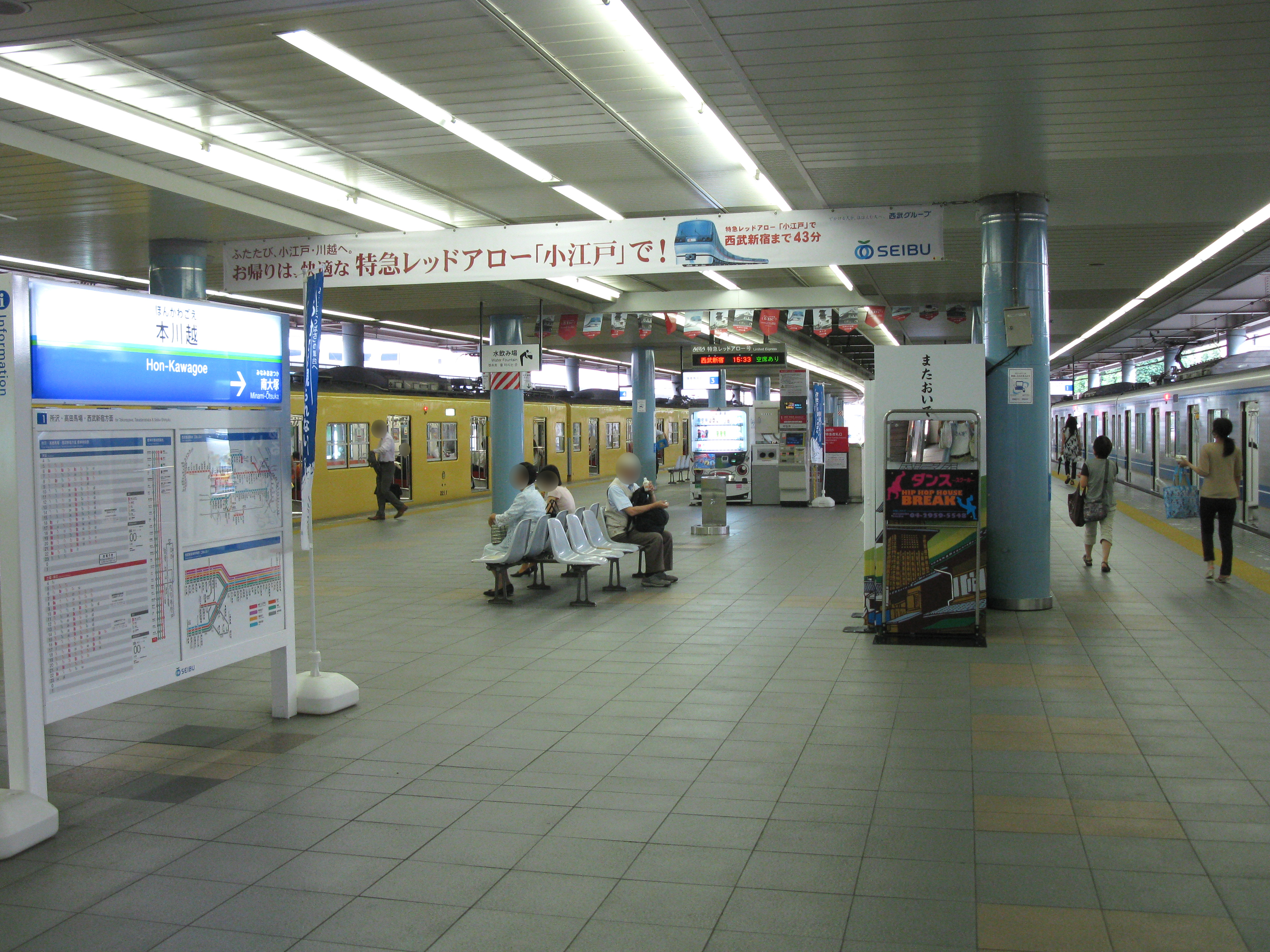 Hon-Kawagoe Station platform (Seibu Railway Shinjuku Line)